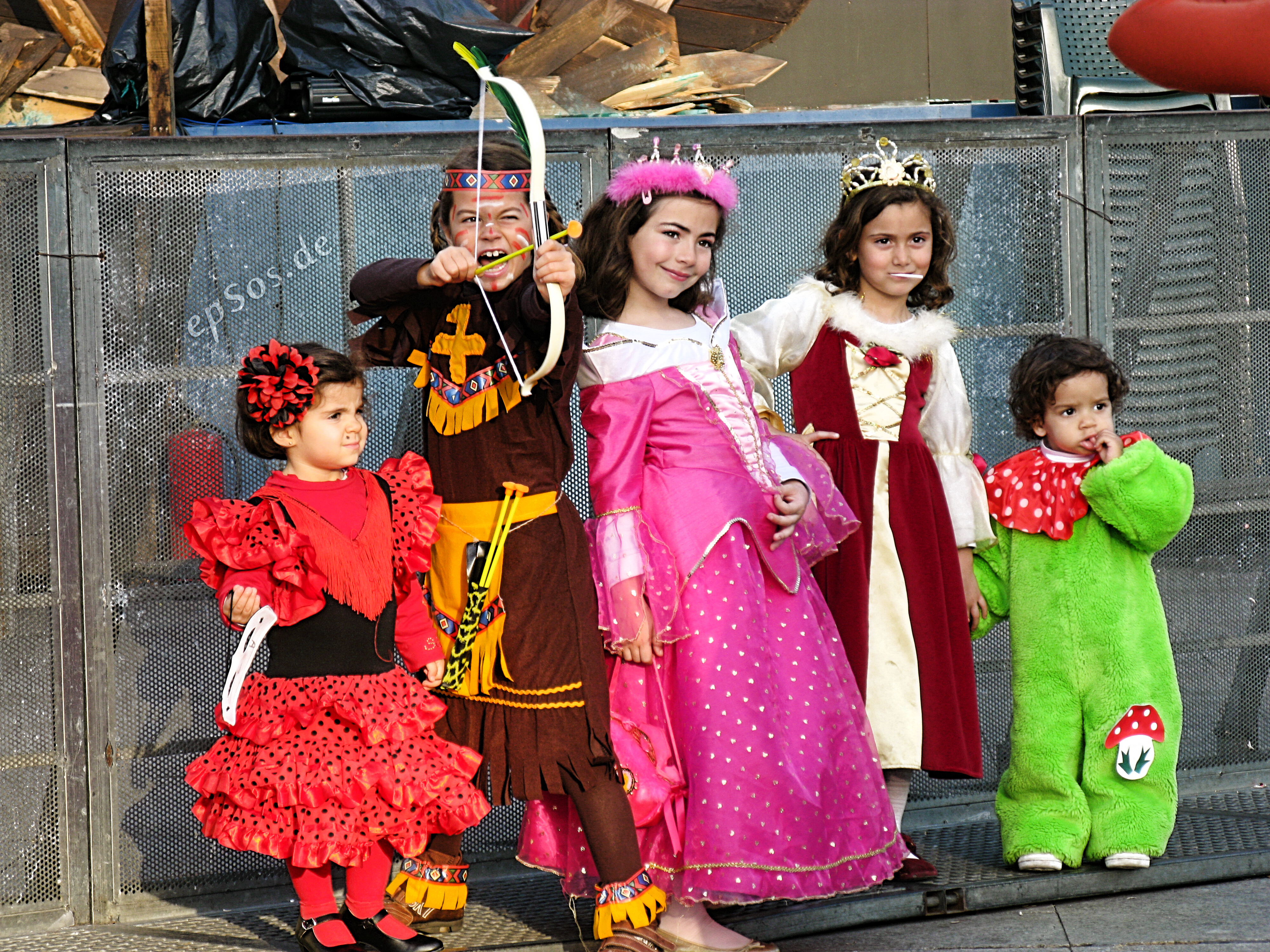 Cute picture about four kids posing in children's carnival costumes of Gran Canaria de Spain.